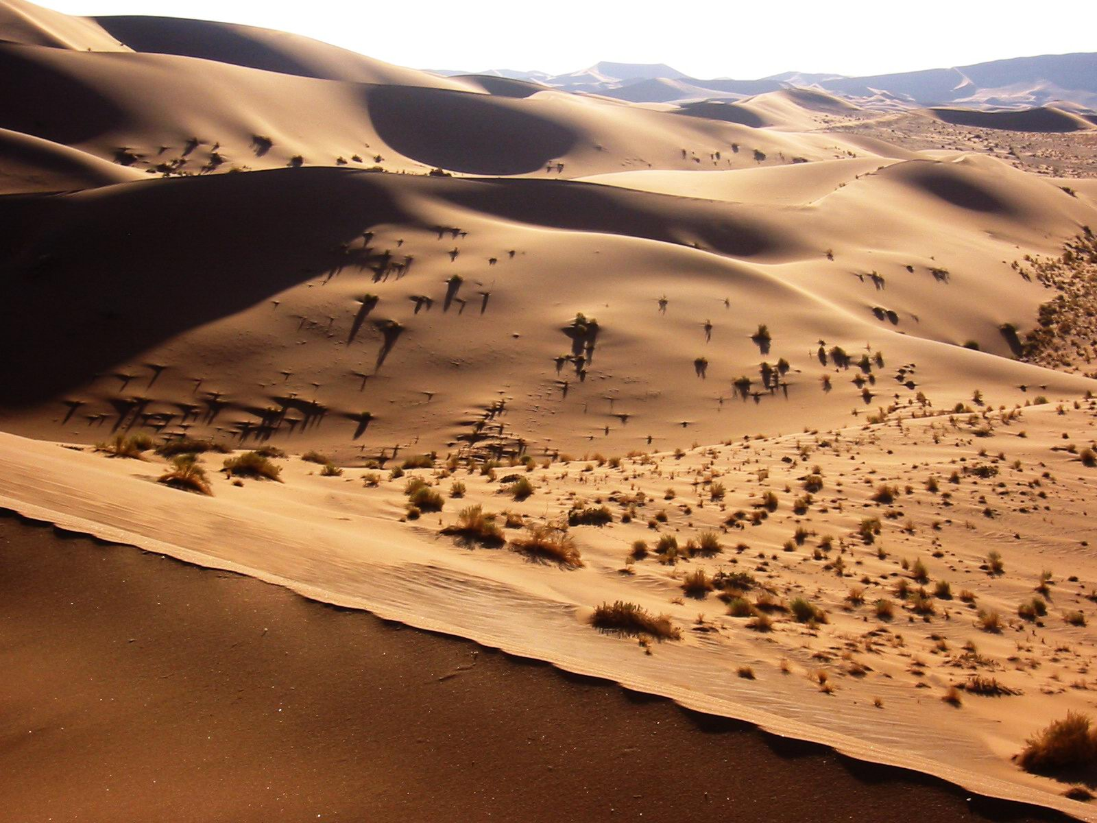 Sand dunes in Namib Desert, Namibia